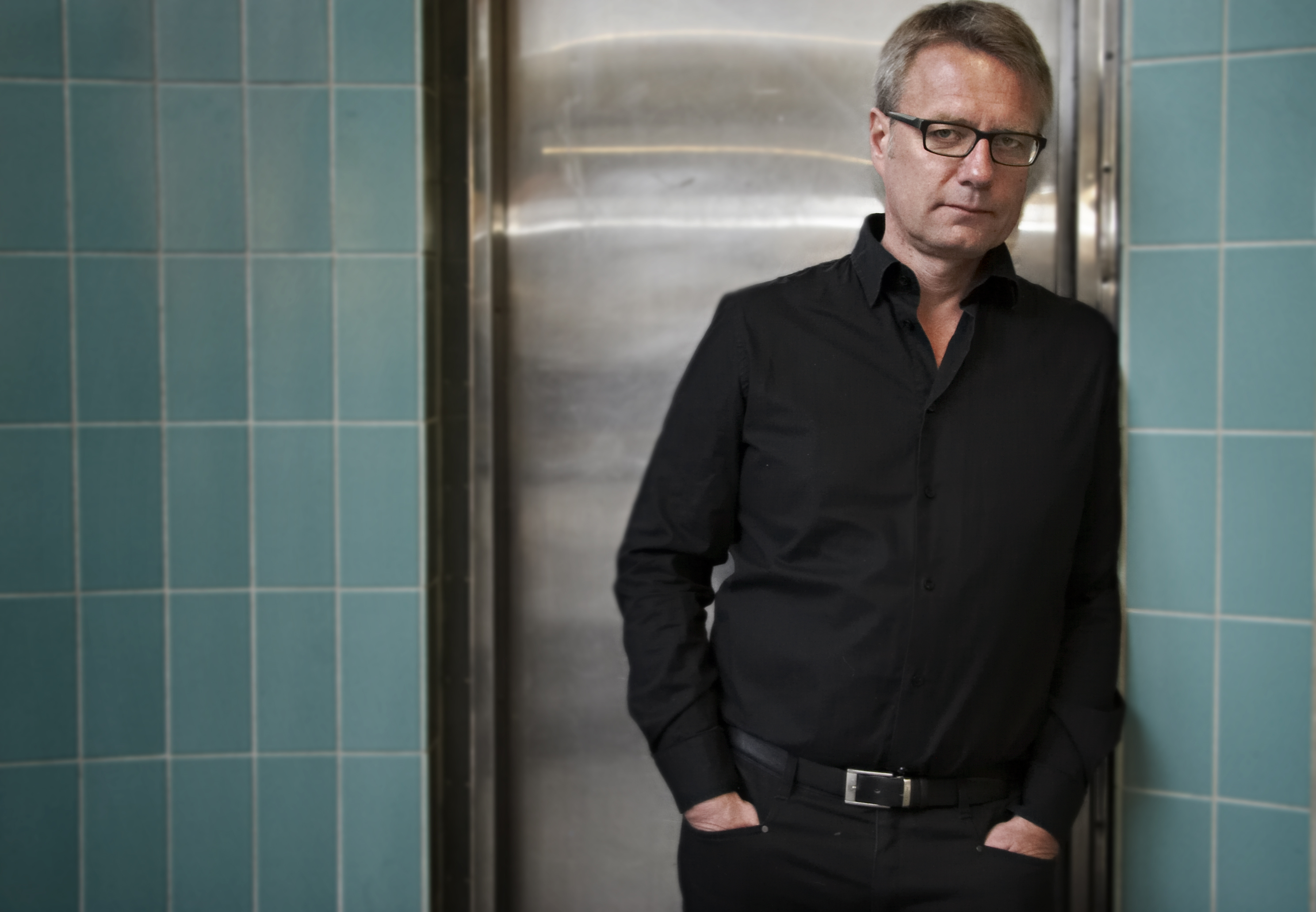 Per Lindberg, Swedish author